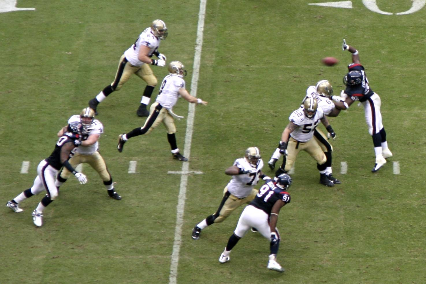 New Orleans Saints quarterback Drew Brees attempts a pass in a game against the Houston Texans.